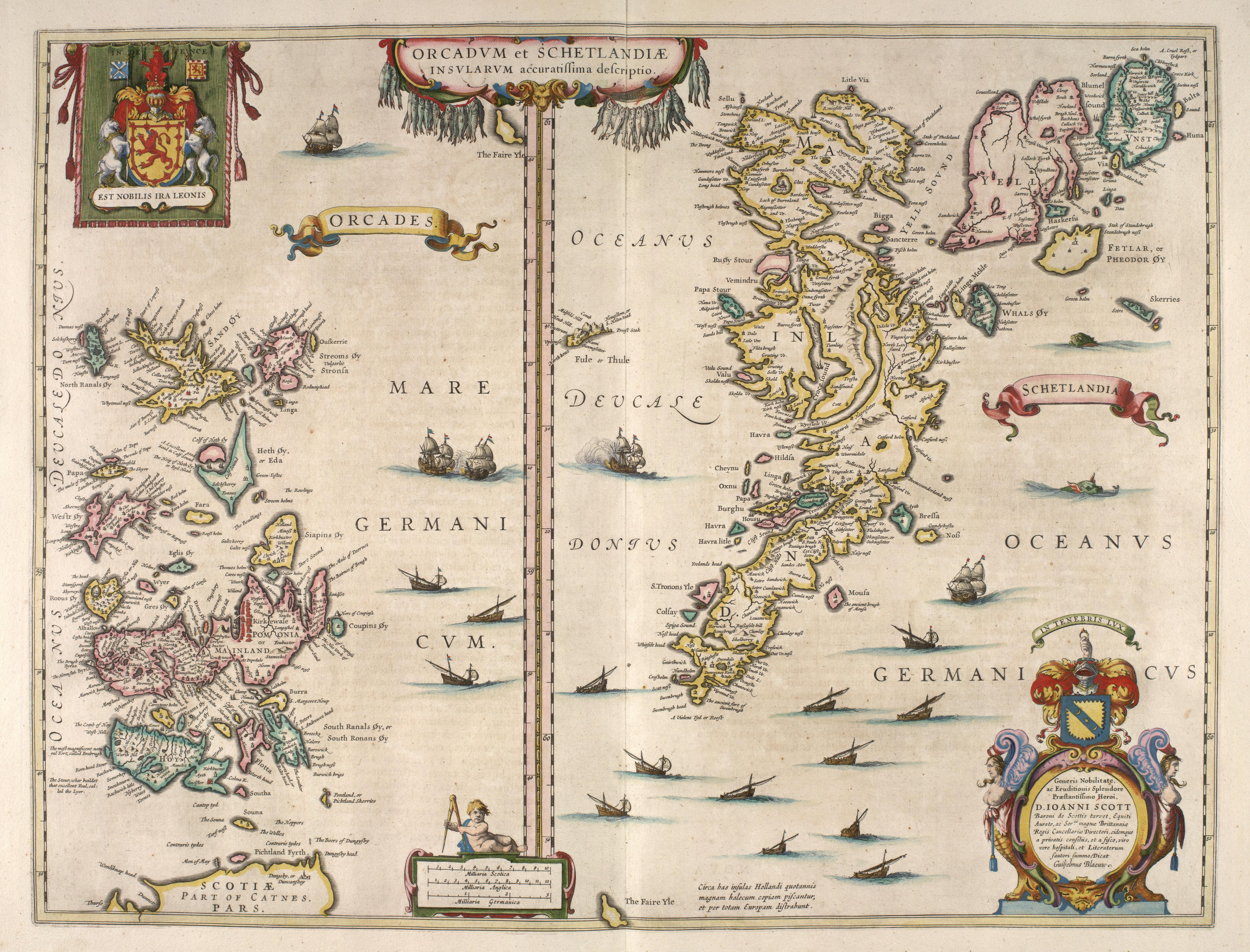 ORCADVM ET SCHETLANDIÆ - Orkney and Shetland